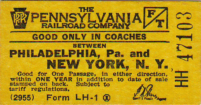 Pennsylvania Railroad unreserved one way coach class ticket between Philadelphia, PA, and New York, NY. c1955 (The Cooper Collection of U.S. Railroad History)